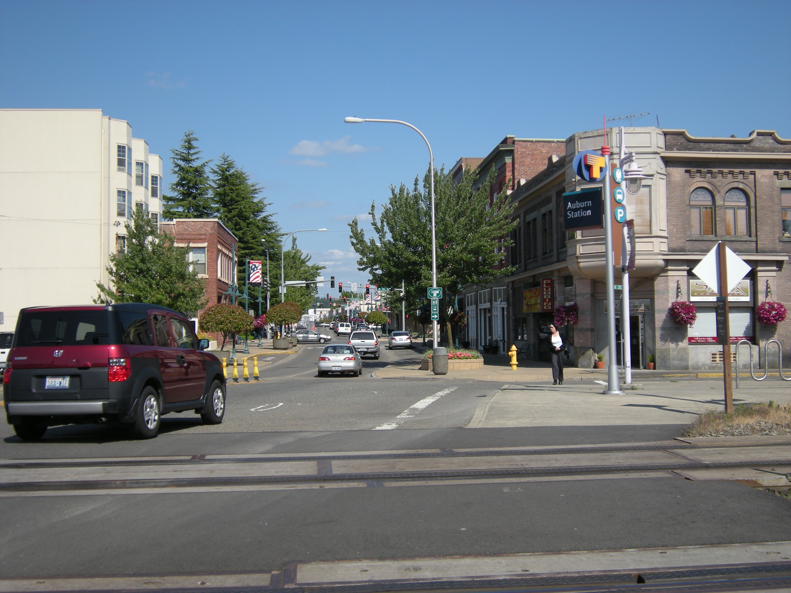 Main Street, Auburn, Washington, looking east from Sounder commuter rail station.